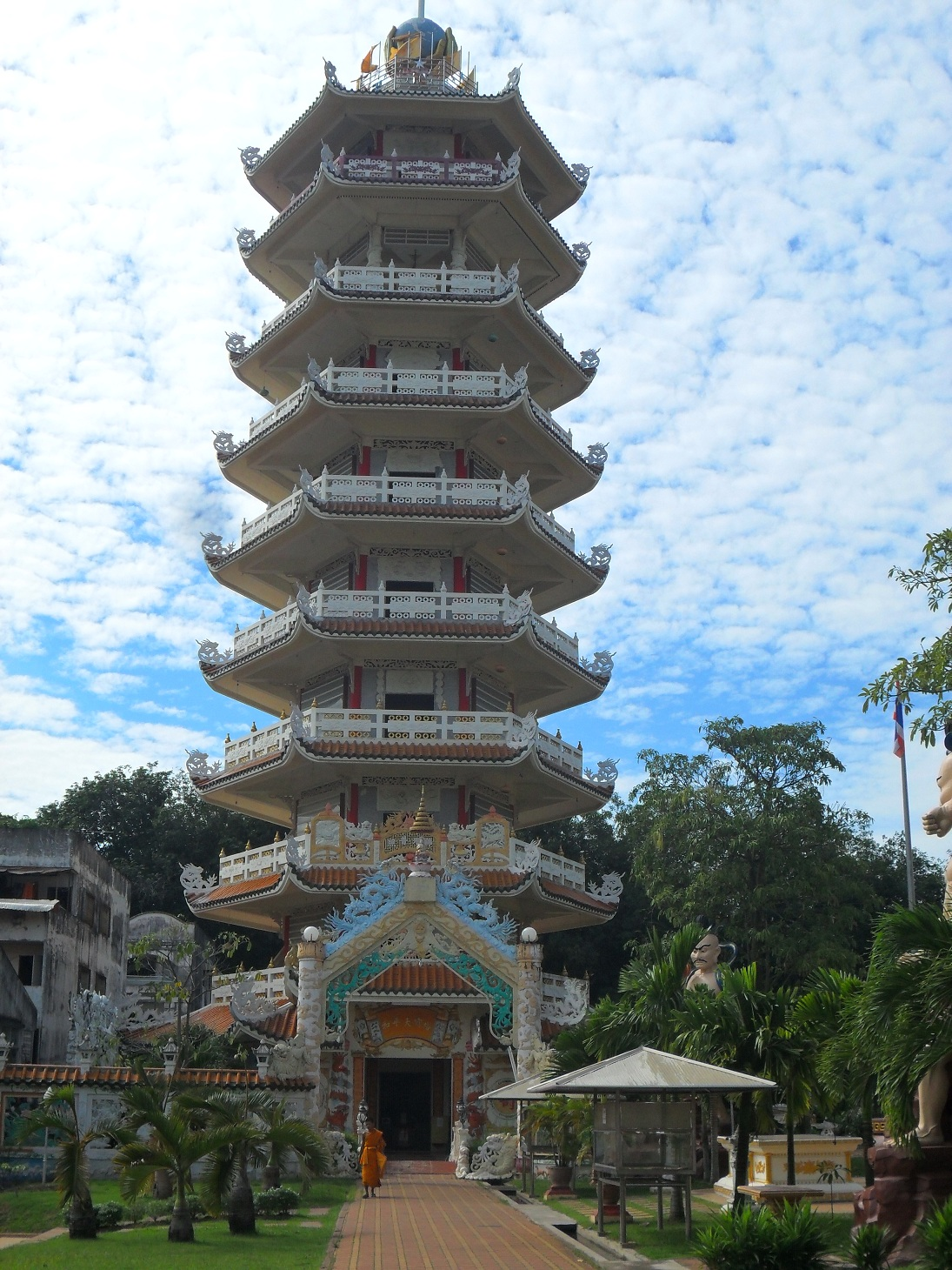 Pagoda at Mahapanya Vidayalai (college of wisdom) Buddhist school, Hat Yai, Thailand